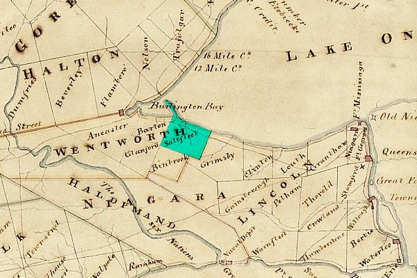 Saltfleet Township highlighted in green, 1818